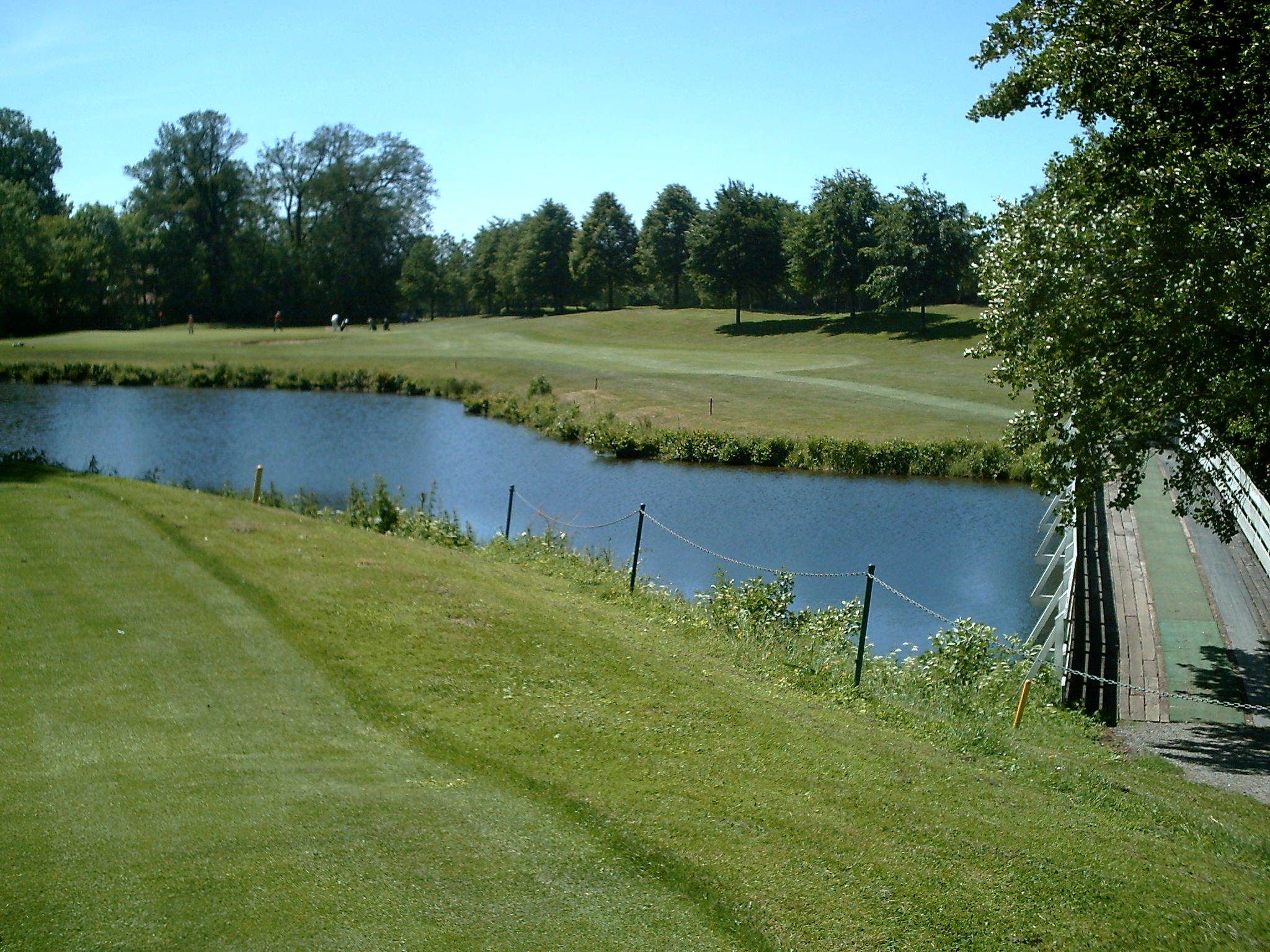 Senne Golfclub Gut Welschof in Schloß Holte-Stukenbrock, Germany